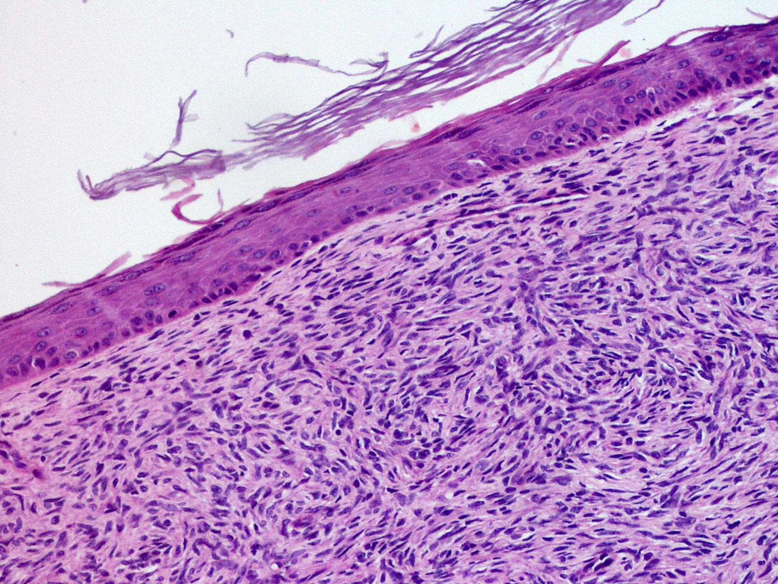 Dermatofibrosarcoma protuberans (DFSP )